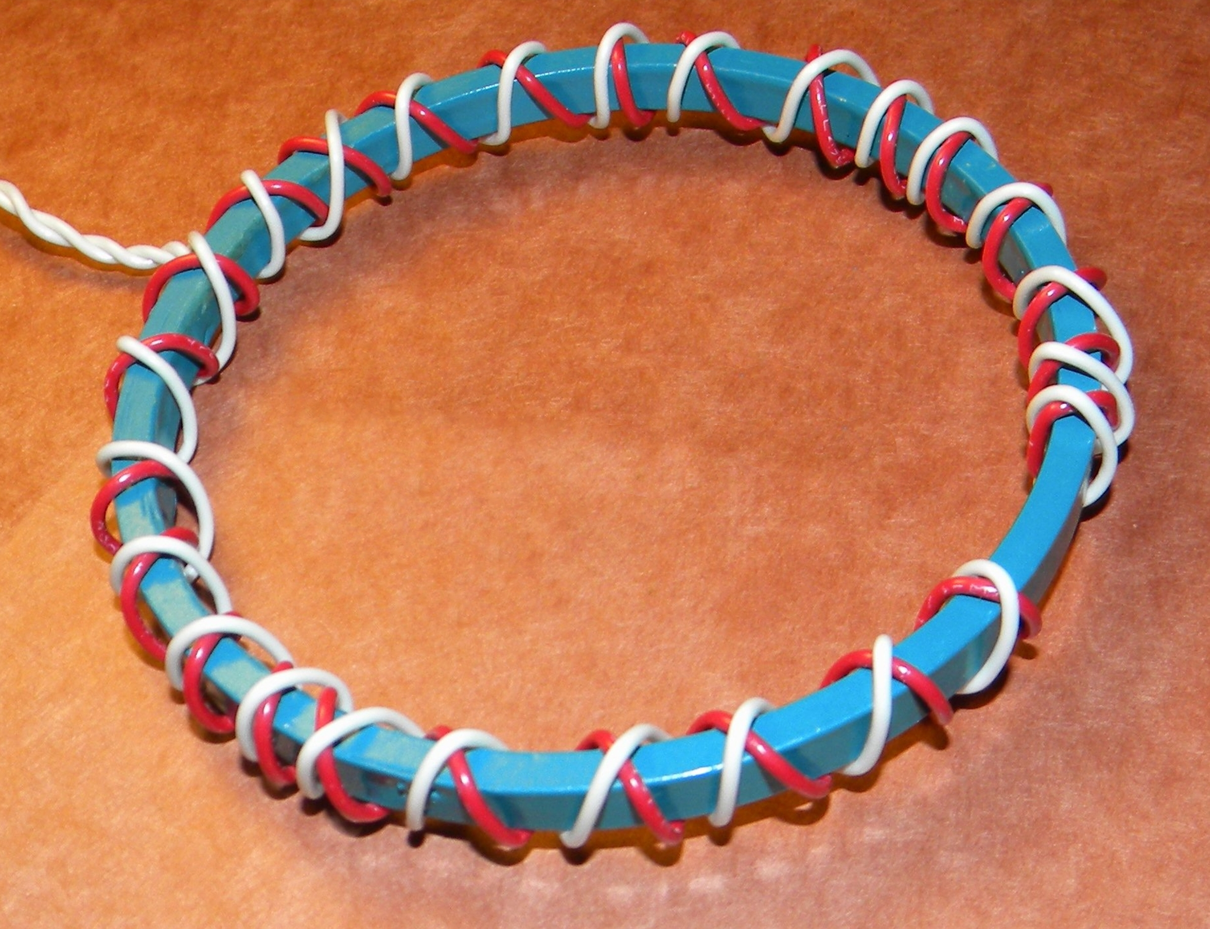 A split return winding added to the simple winding cancels the circumferential current. The gap at the end of the winding is exaggerated to make it obvious.